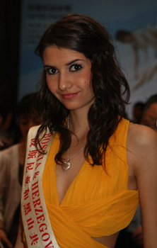 Miss Bosnia & Herzegovina 2007, Gordana Tomic, in Miss World 2007, Sanya, China